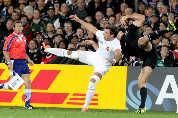 Two players, one per side, try a pas-de-deux during the 2011 Rugby World Cup final France - New Zealand while the linesman watches the show